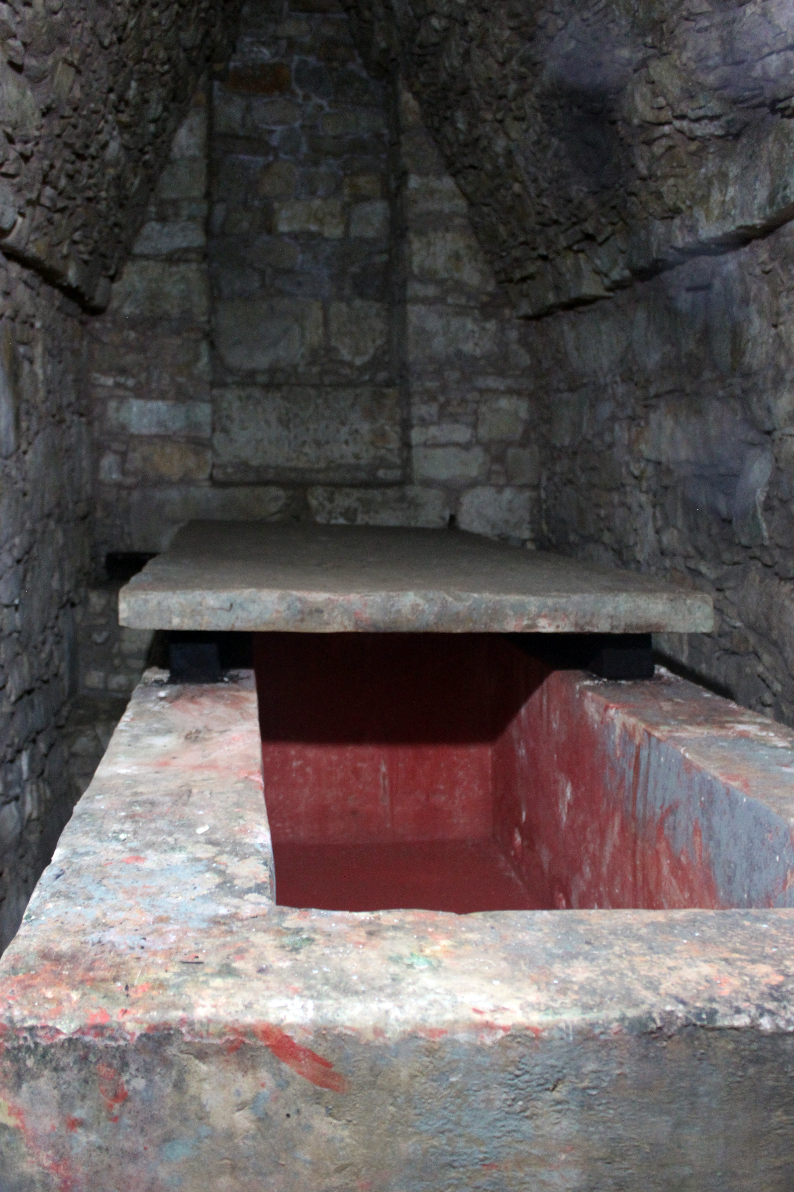 Tomb of the Red Queen (Temple XIII) in Palenque, Chiapas, Mexico